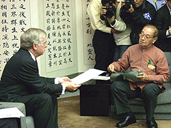 Ambassador Schieffer met with Governor Hirokazu Nakaima and made a statement to the Governor and the people of Okinawa.